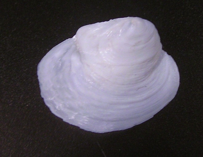 Crepidula walshi L. A. Reeve, 1859, a slipper snail from the family Calyptraeidae